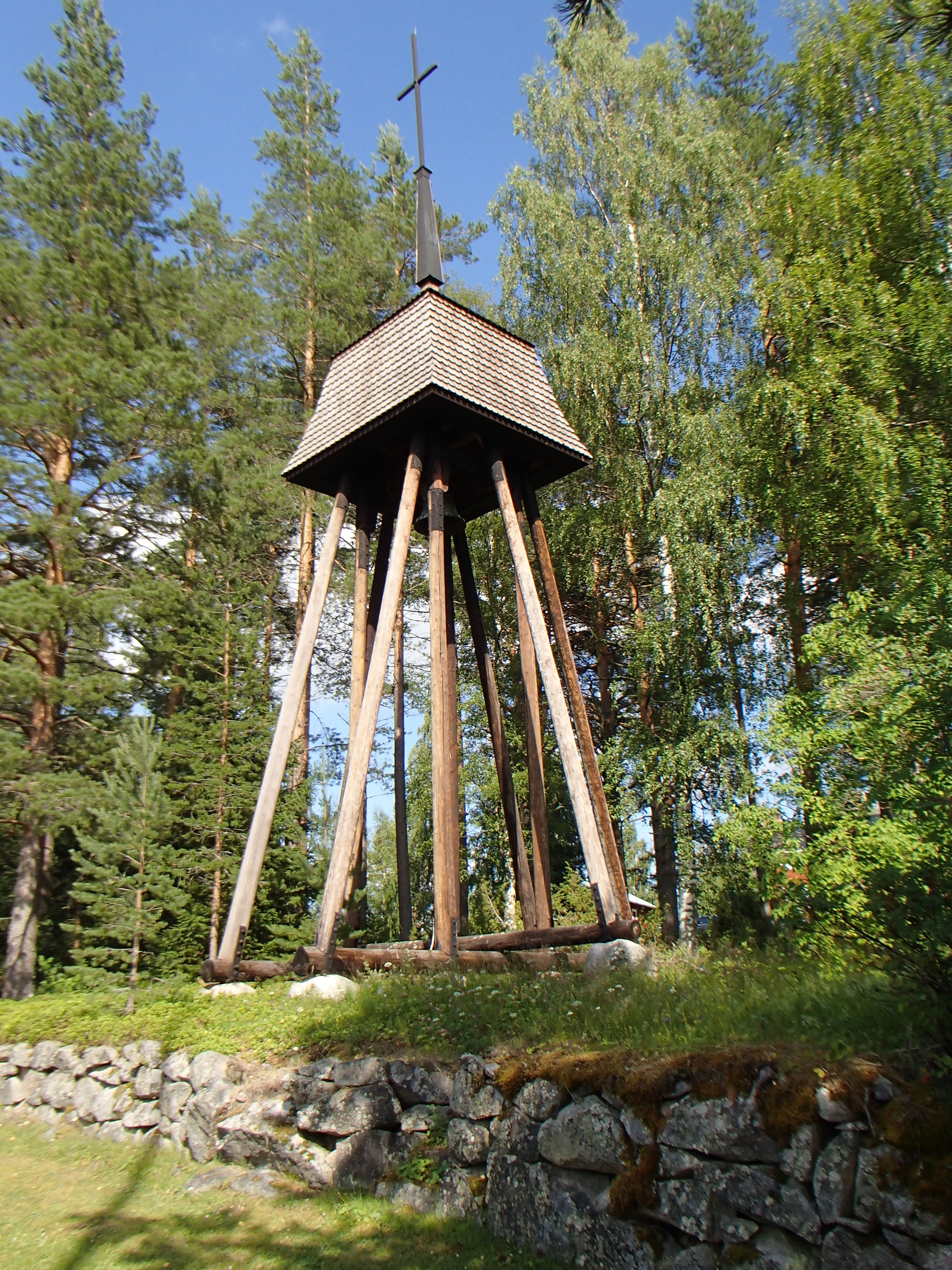 The bell tower of "Nordsjö kapell" at Nordsjö 3624 near Vallsta, Bollnäs Municipality